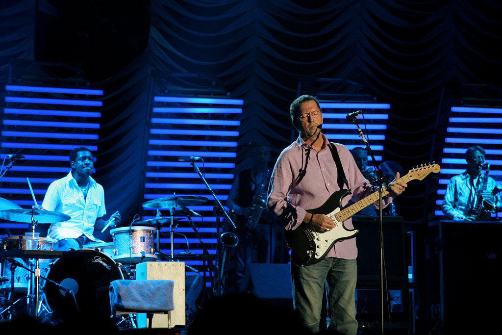 Eric Clapton performing, with session musician/drummer Steve Jordan (left) on Clapton's Ahoy Rotterdam 2006, commencing Clapton's 2007 Crossroads Guitar Festival Foto: C. Kuhl /